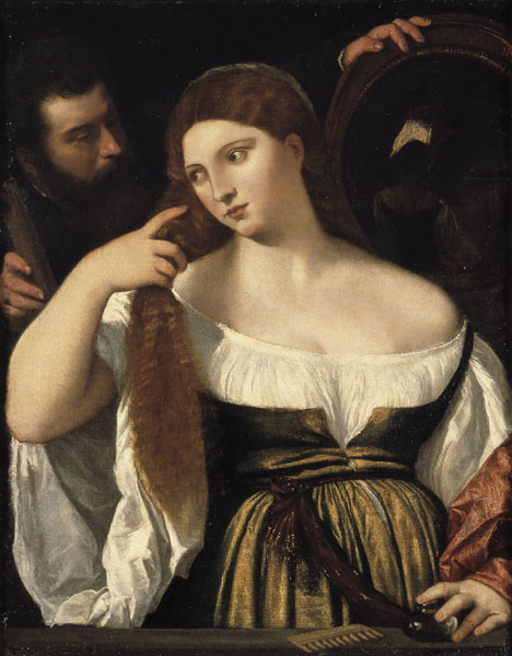 Girl Before the Mirror